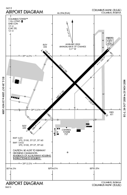 Airport map for Columbus Municipal Airport category:Columbus Municipal Airport category:Federal Aviation Administration category:Maps